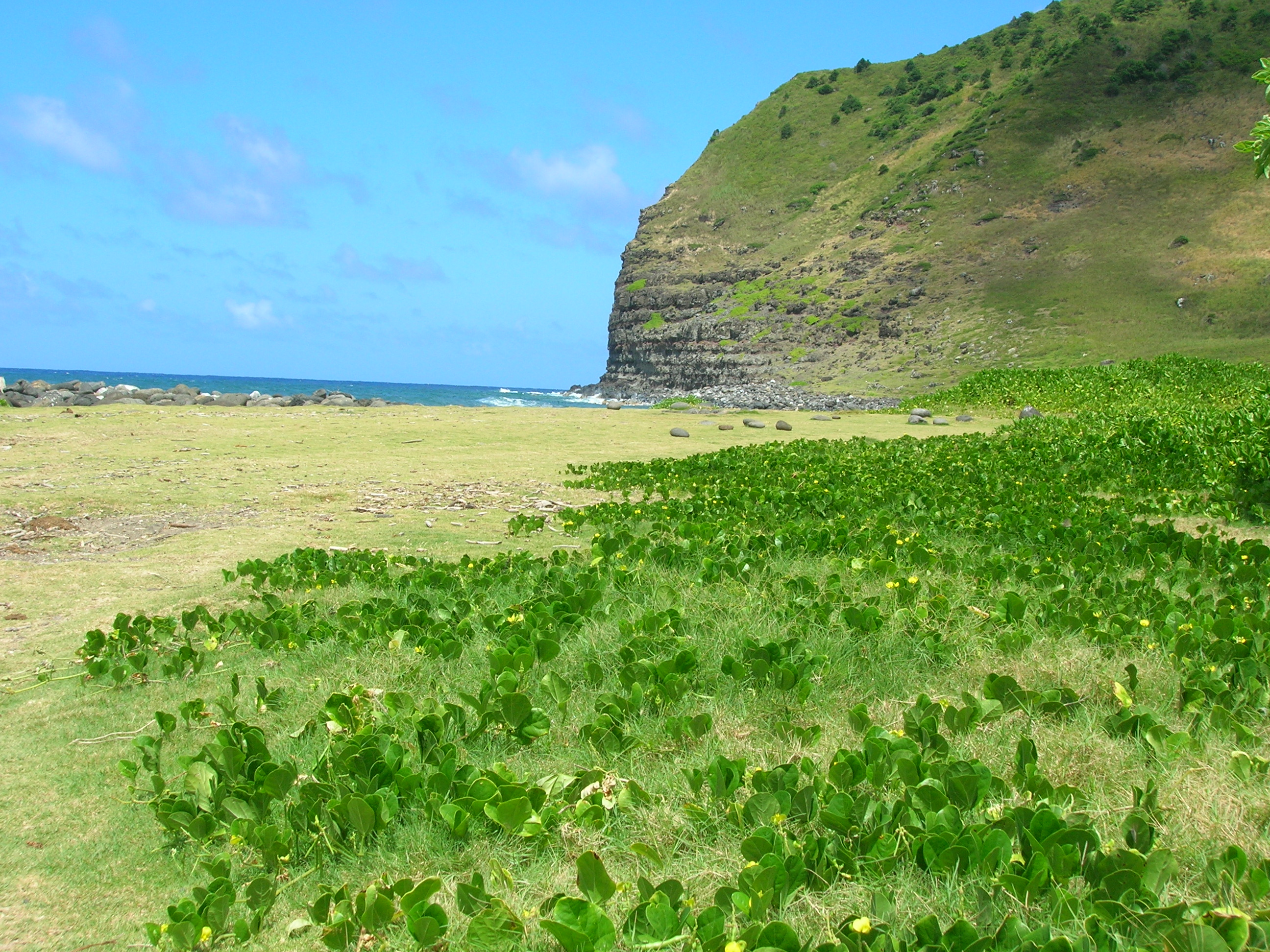 Vigna marina (habit). Location: Molokaʻi, Halawa Bay